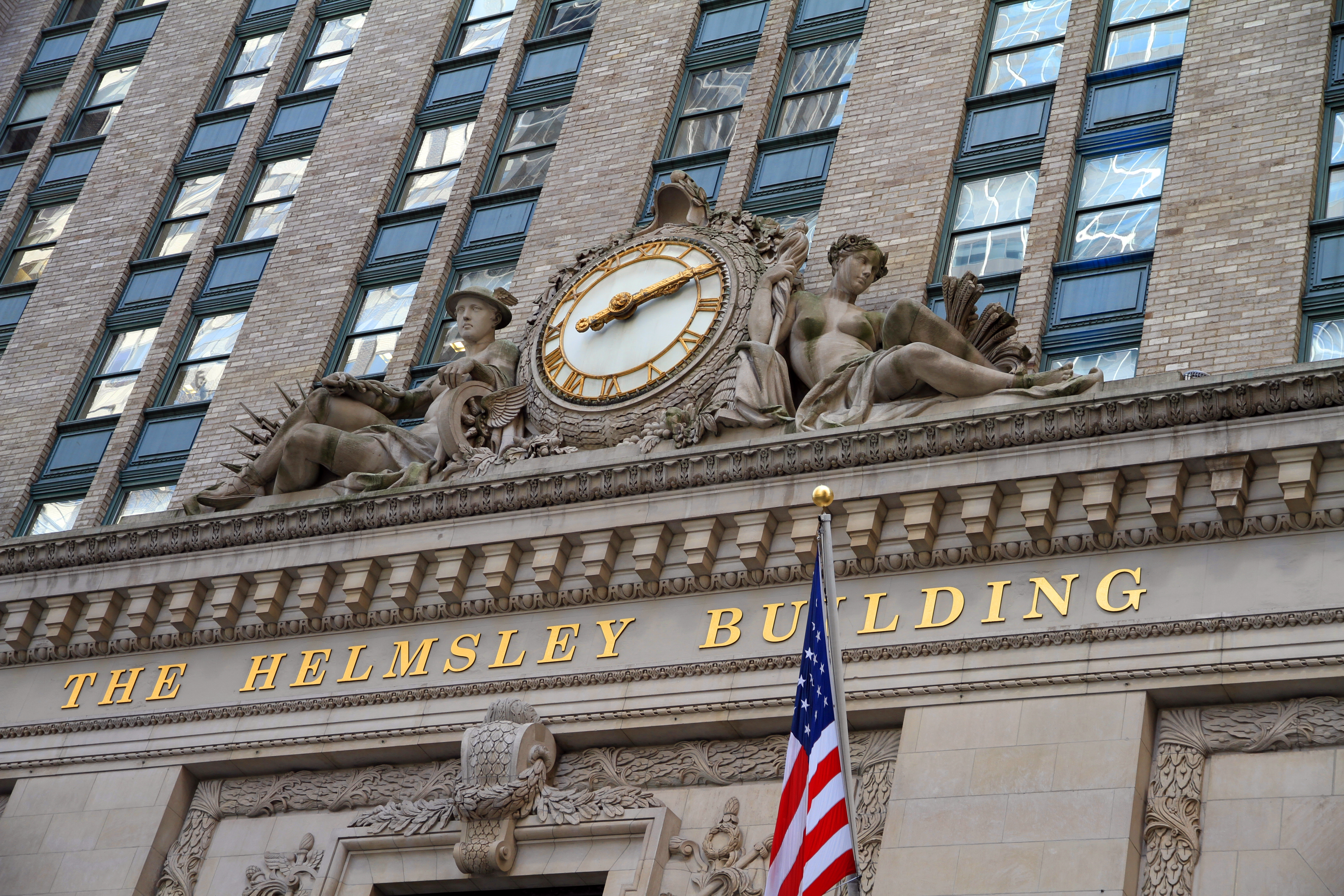 The Helmsley Building, 2013